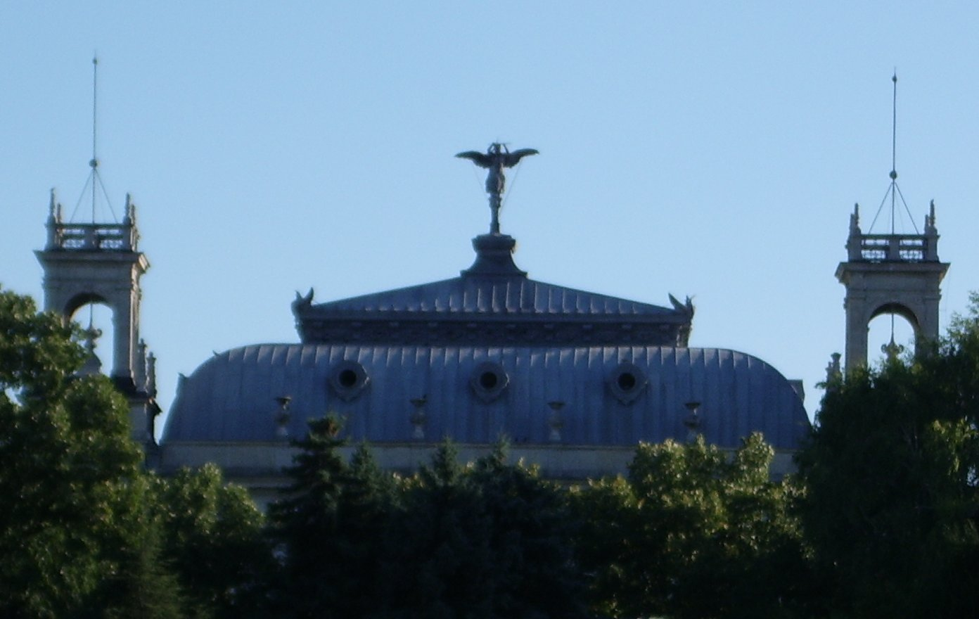 The skyline of the Dohodno Zdanie building in Rousse, Bulgaria. A shot taken from the middle of the square, ground level.